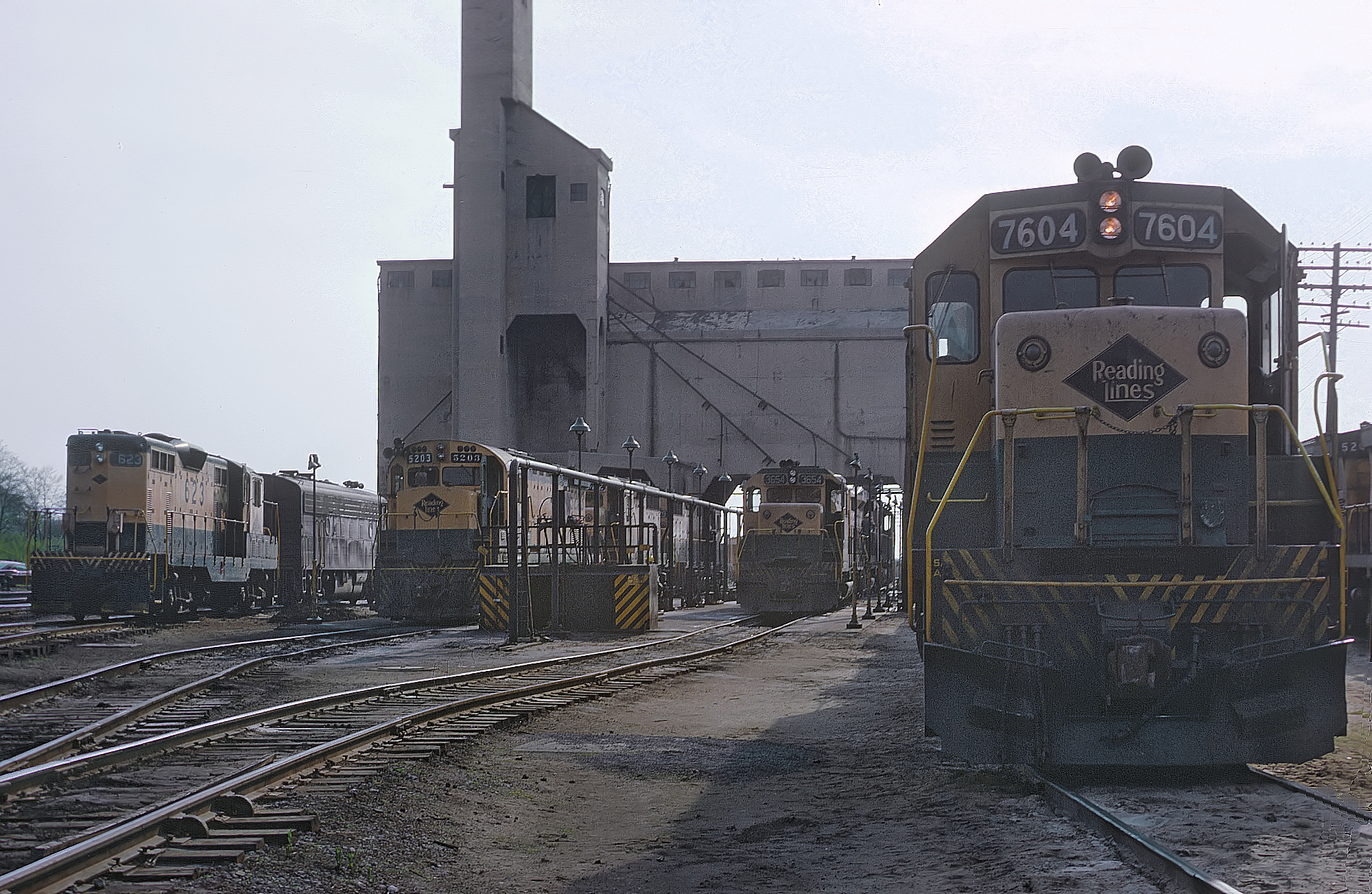 From left-to-right at Rutherford Yard: EMD GP7 No. 623, ALCO Century 424 No. 5203, EMD GP35 No. 3654, and EMD SD45 No. 7604.